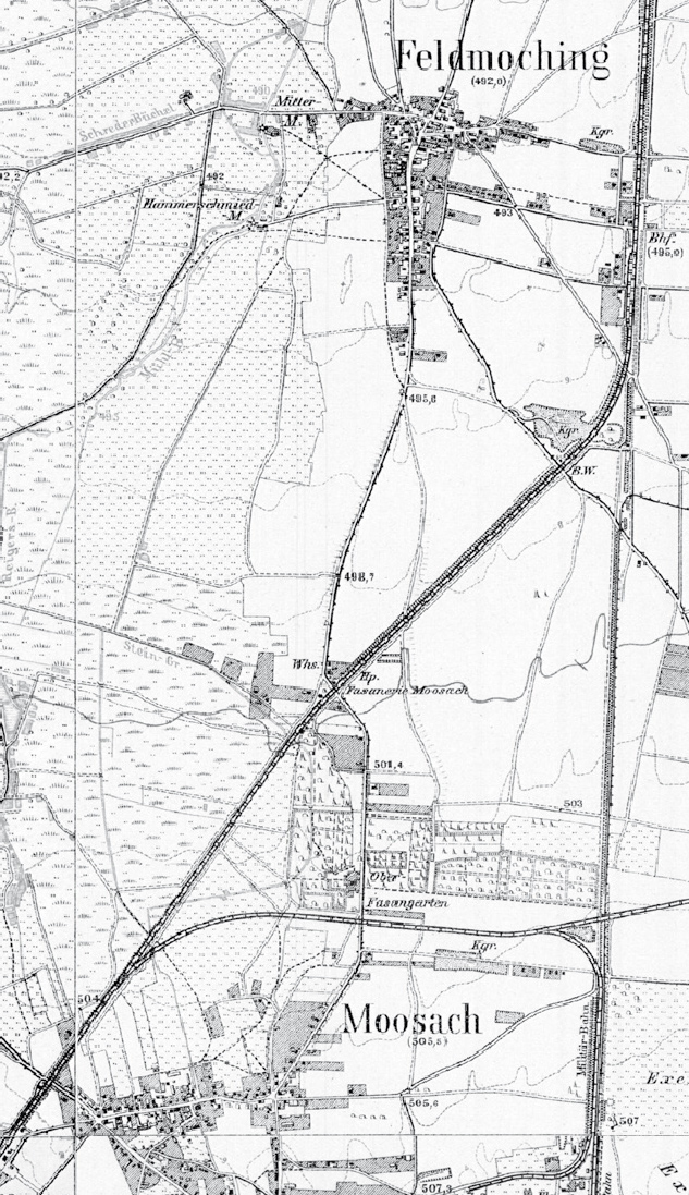 Map of Munich and its suburbs. Compiled from some sheets of the topographic map of Bavaria with the scale 1:25.000 from the years 1907-1914